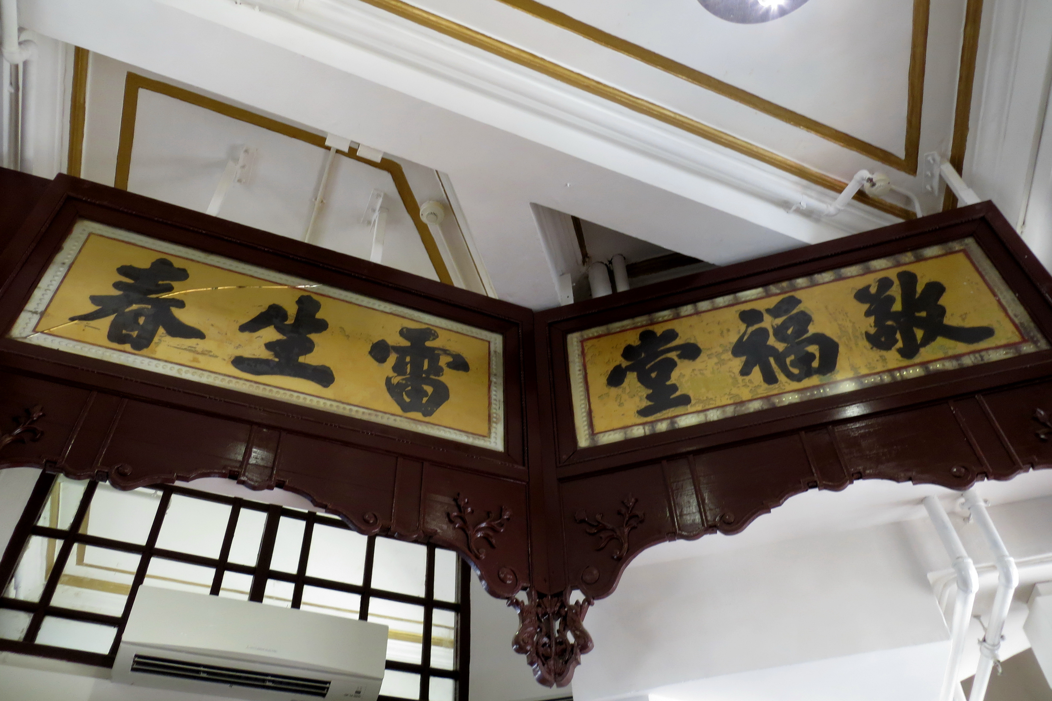 Wood plaques inside the Lui Seng Chun, Kowloon, Hong Kong.